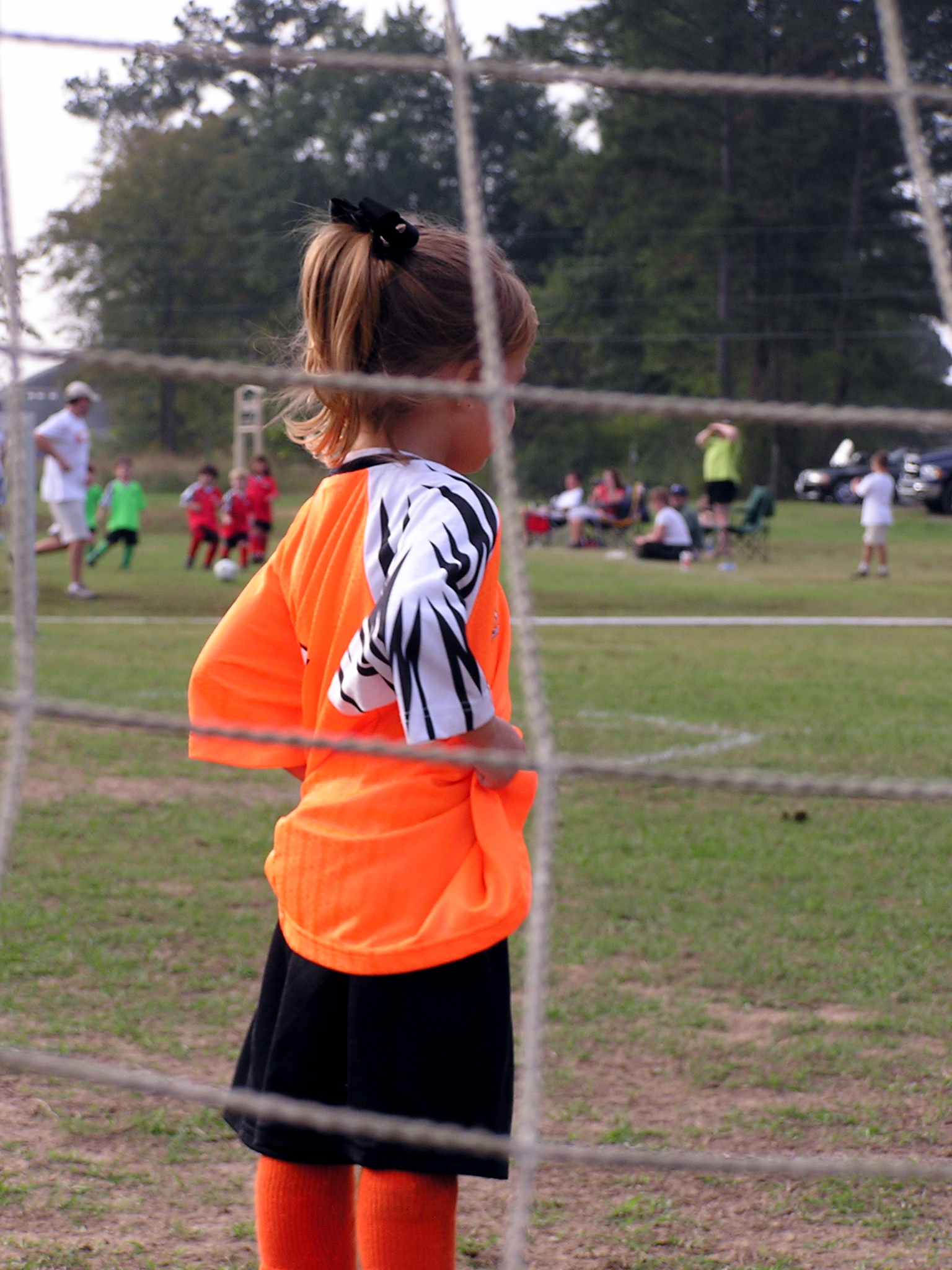 Soccer girl: Soccer game